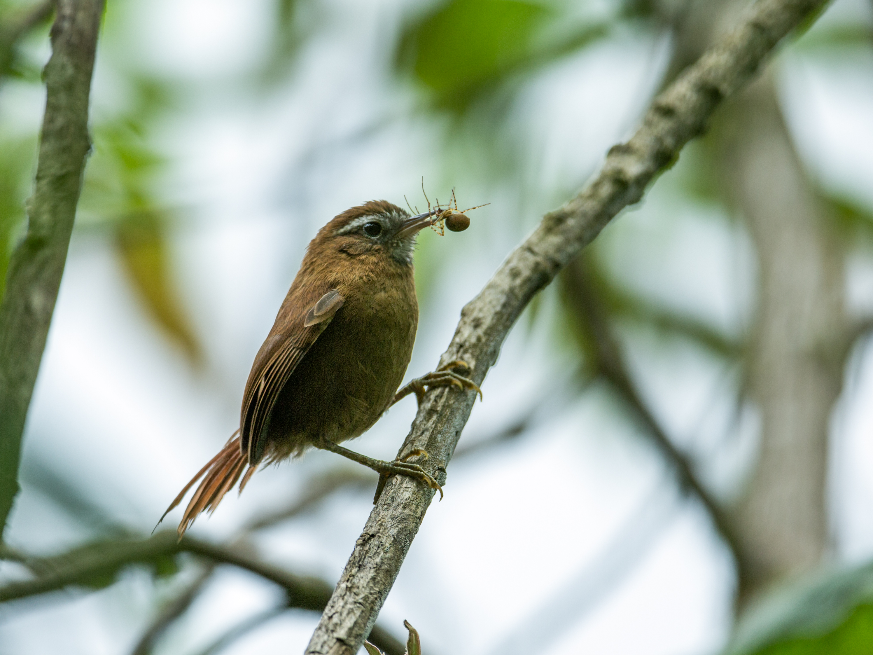 White-browed Spinetail from Yanacocha Reserve, Pichincha, Ecuador.